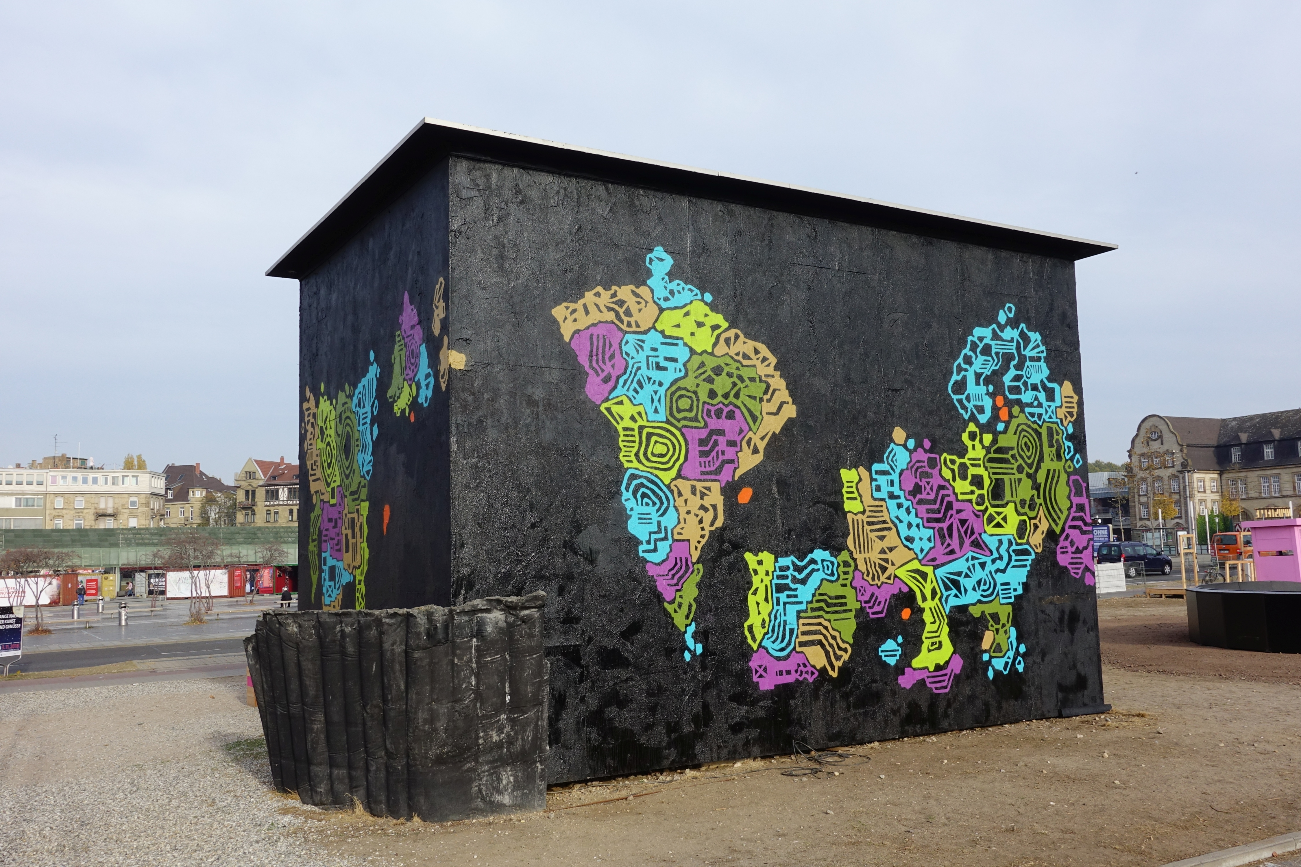 Mural "Old new world order" by artist EGS in Alter Meßplatz, 68169 Mannheim, Germany. The mural was removed in early 2019.